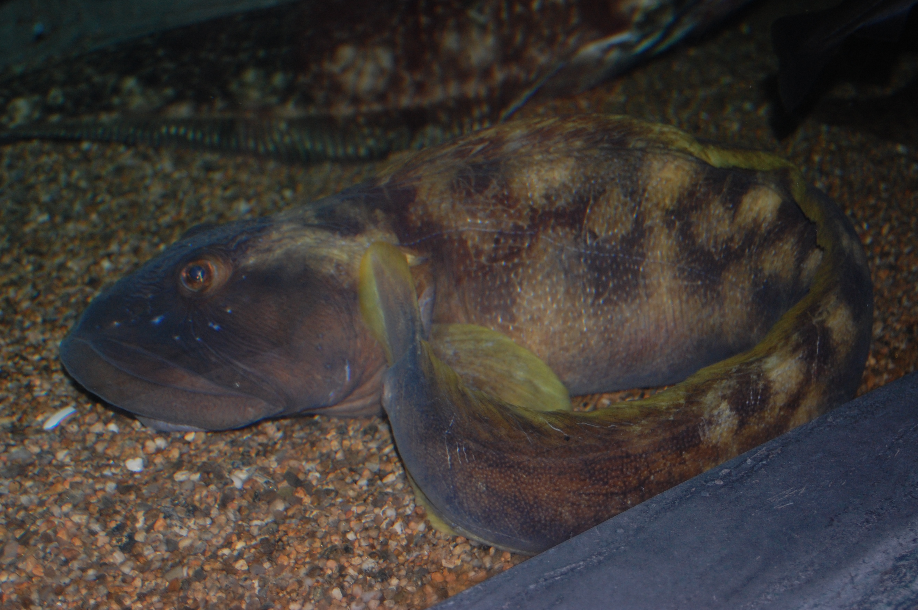 Ocean pout (Zoarces americanus) at the New England Aquarium, Boston MA.